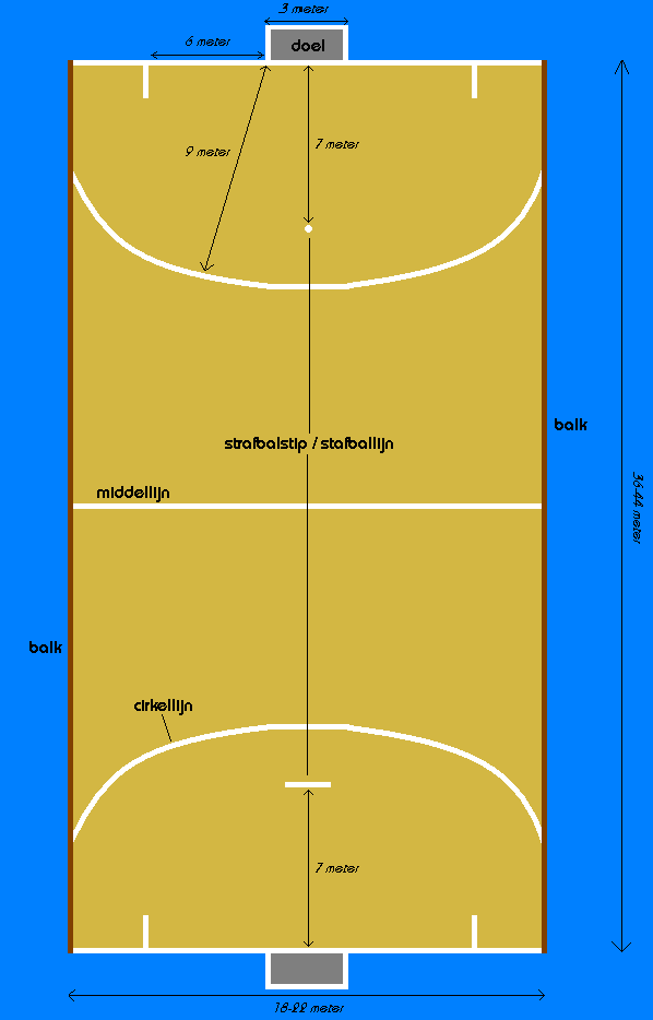 Diagram of an indoor hockey field with parts labelled in Dutch.